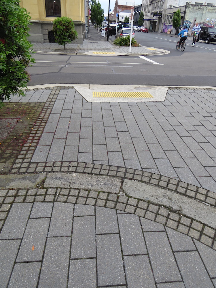 Historic basalt kerbstones have been preserved within new street renovations in Vogel Street, part of, Dunedin, New Zealand's Warehouse Precinct upgrade.